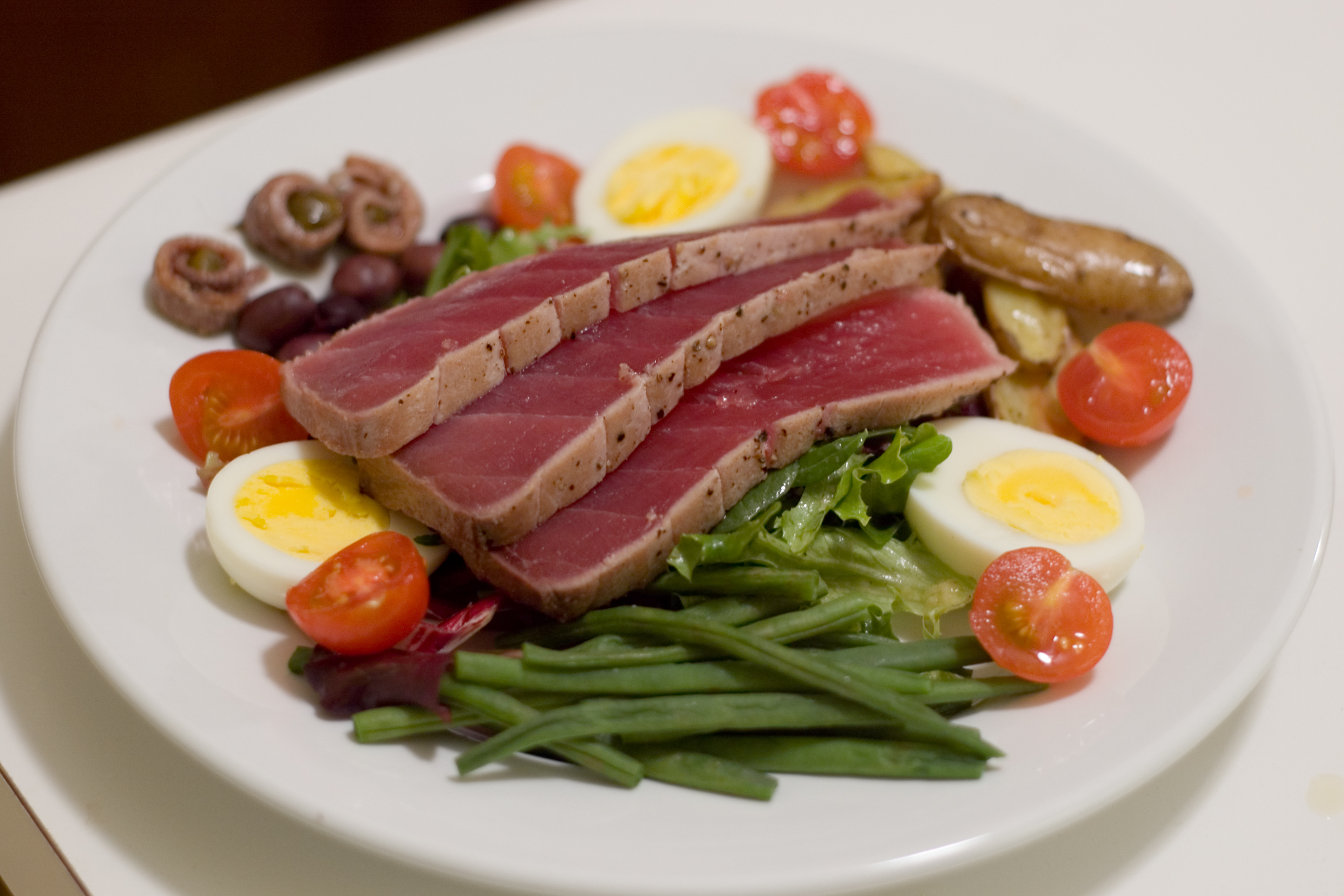 Salade nicoise with seared tuna